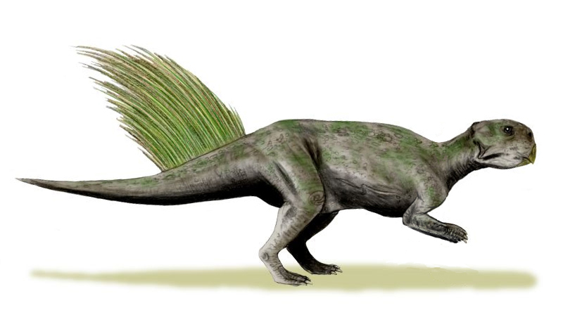 Psittacosaurus mongoliensis. Note that the specimen with preserved pigmentation was shown to not belong to this particular species of Psittacosaurus, so the findings may not apply here.[1]